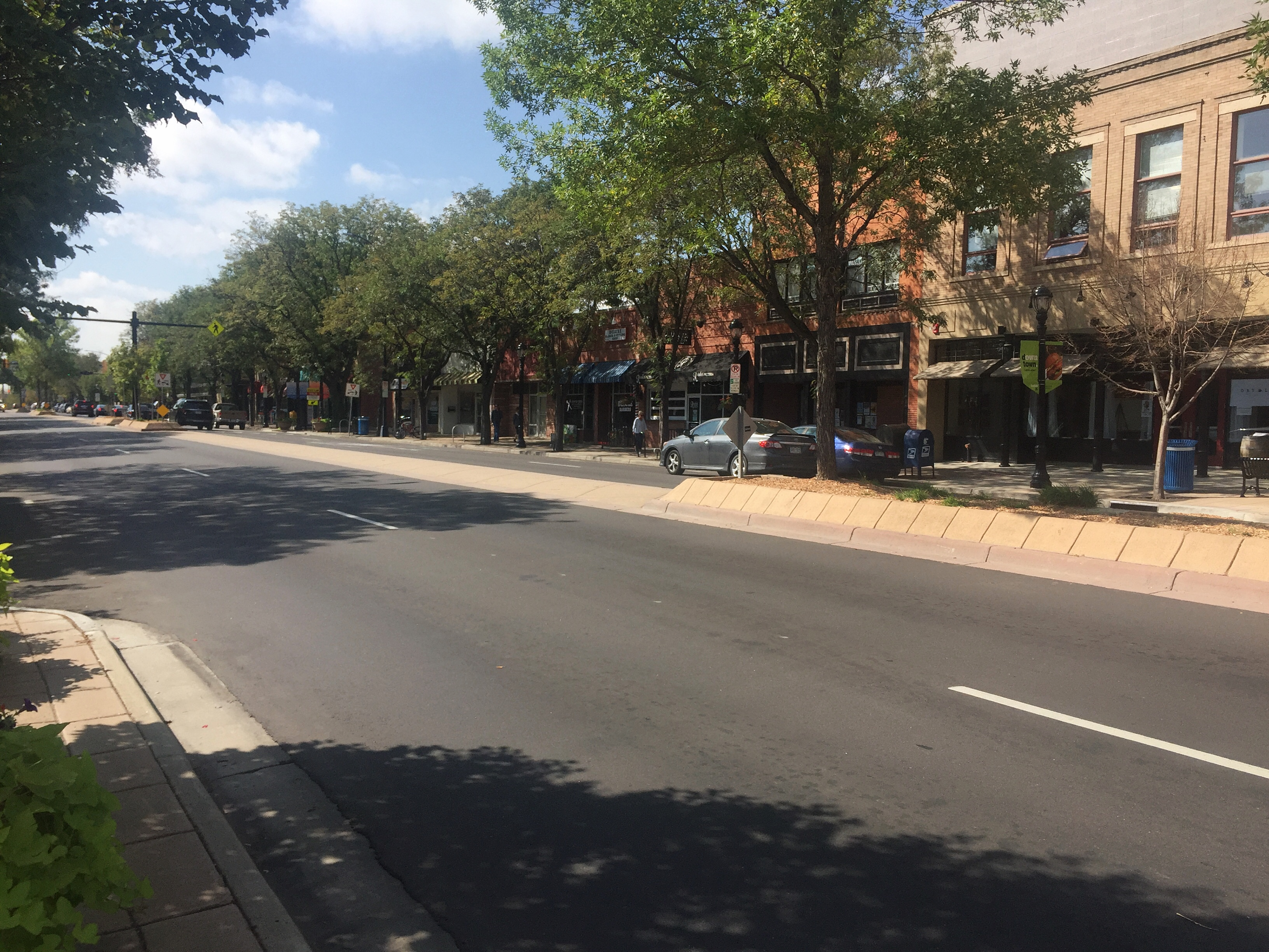 Longmont's Main Street is home to many local businesses